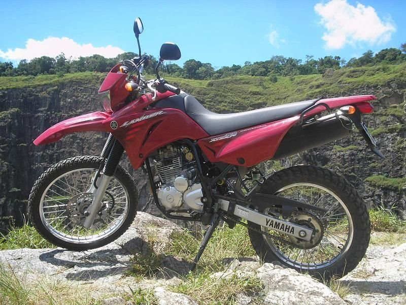 yamha lander xtz 250